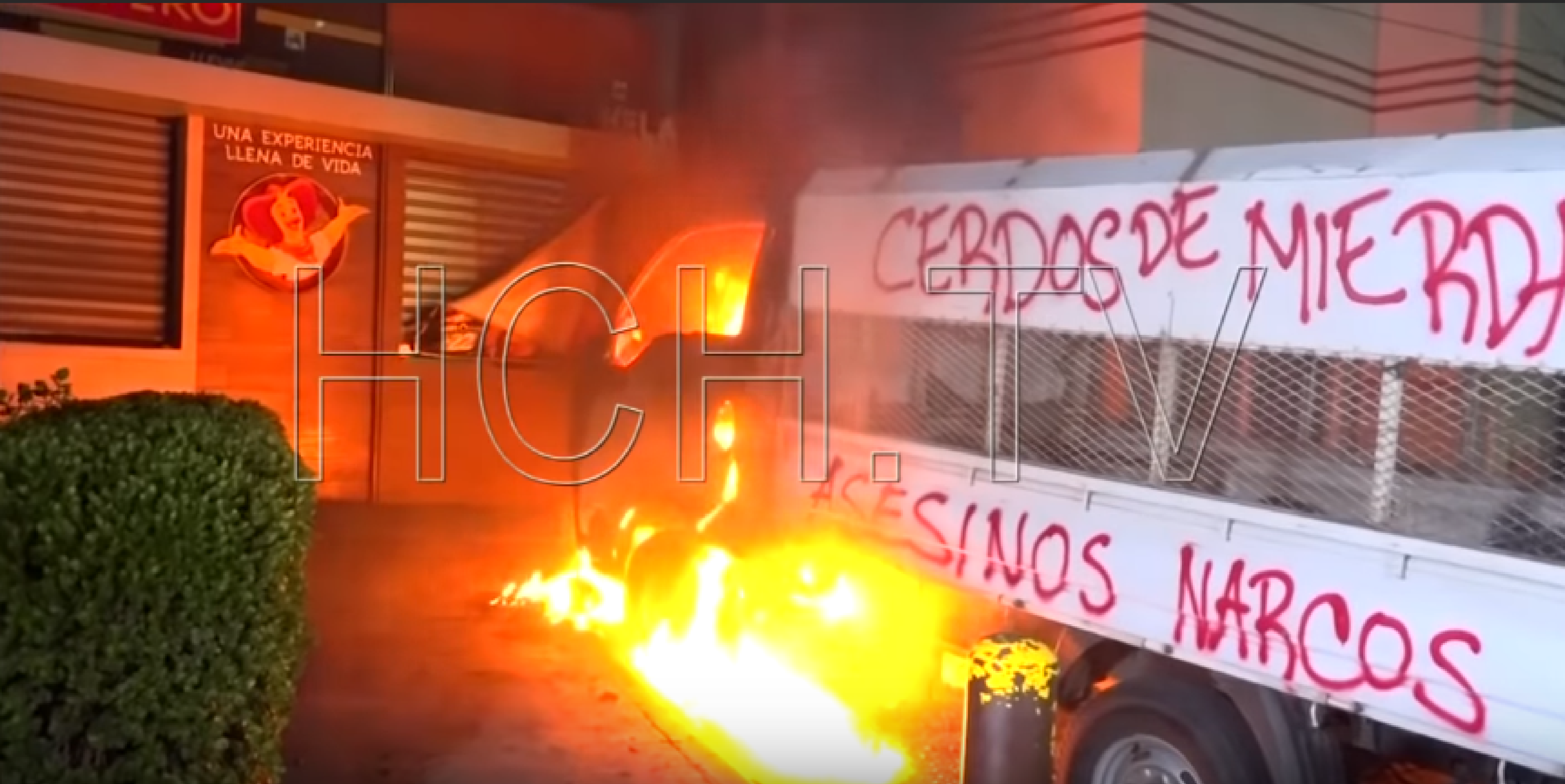 Protests in Honduras of 2019, held in October to demand the resignation of President Juan Orlando Hernández.